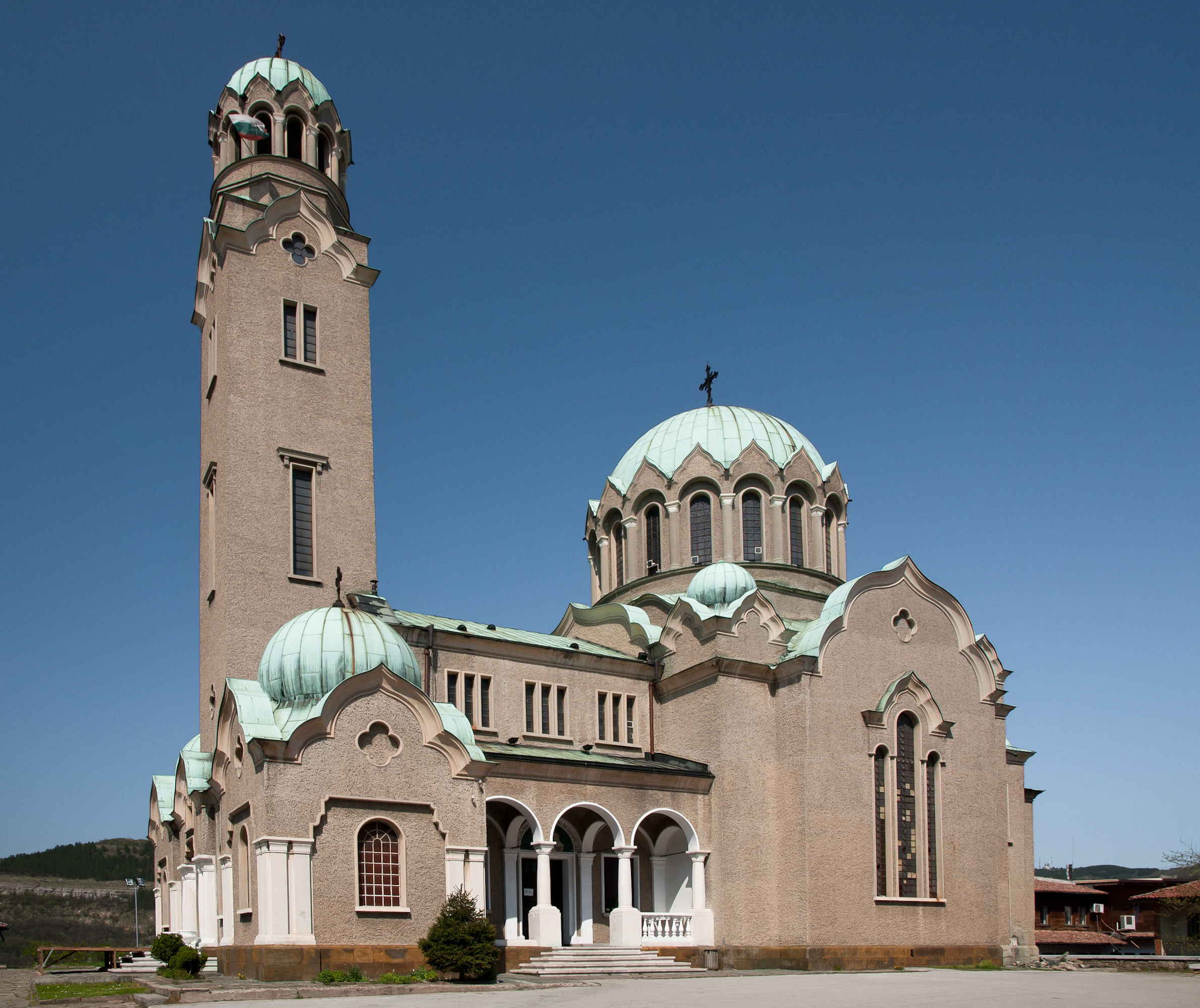 Veliko Tarnovo Cathedral, Bulgaria.